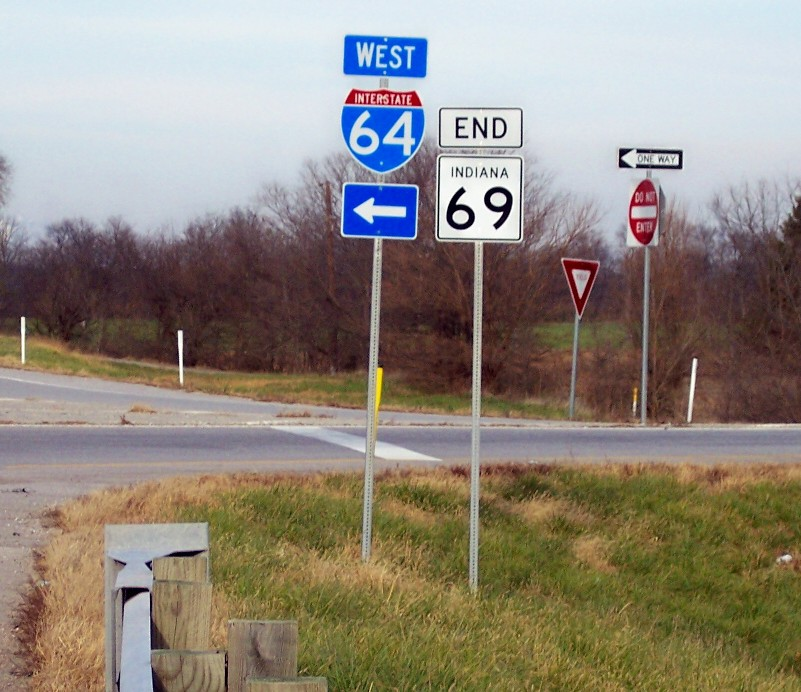 Northern terminus of Indiana State Road 69 at Interstate 64 in Posey County.